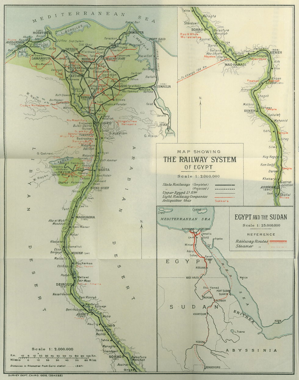 Map of Egyptian Railway system in 1908.